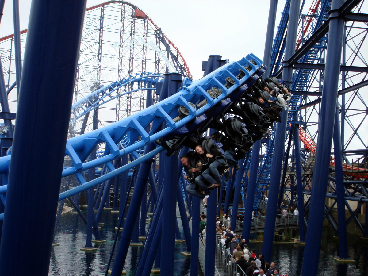 Infusion (Pleasure Beach, Blackpool) UK